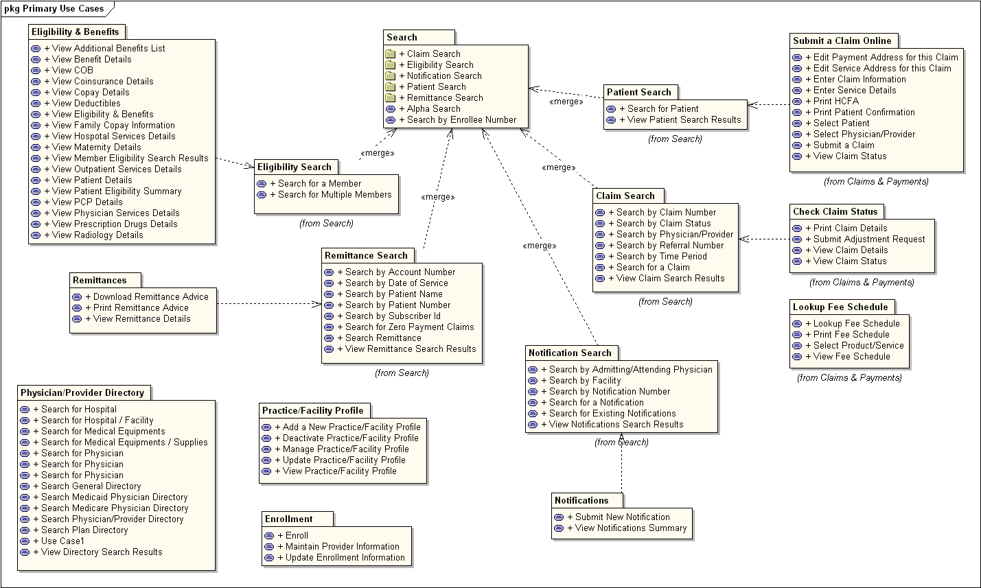 Sample UML package diagram